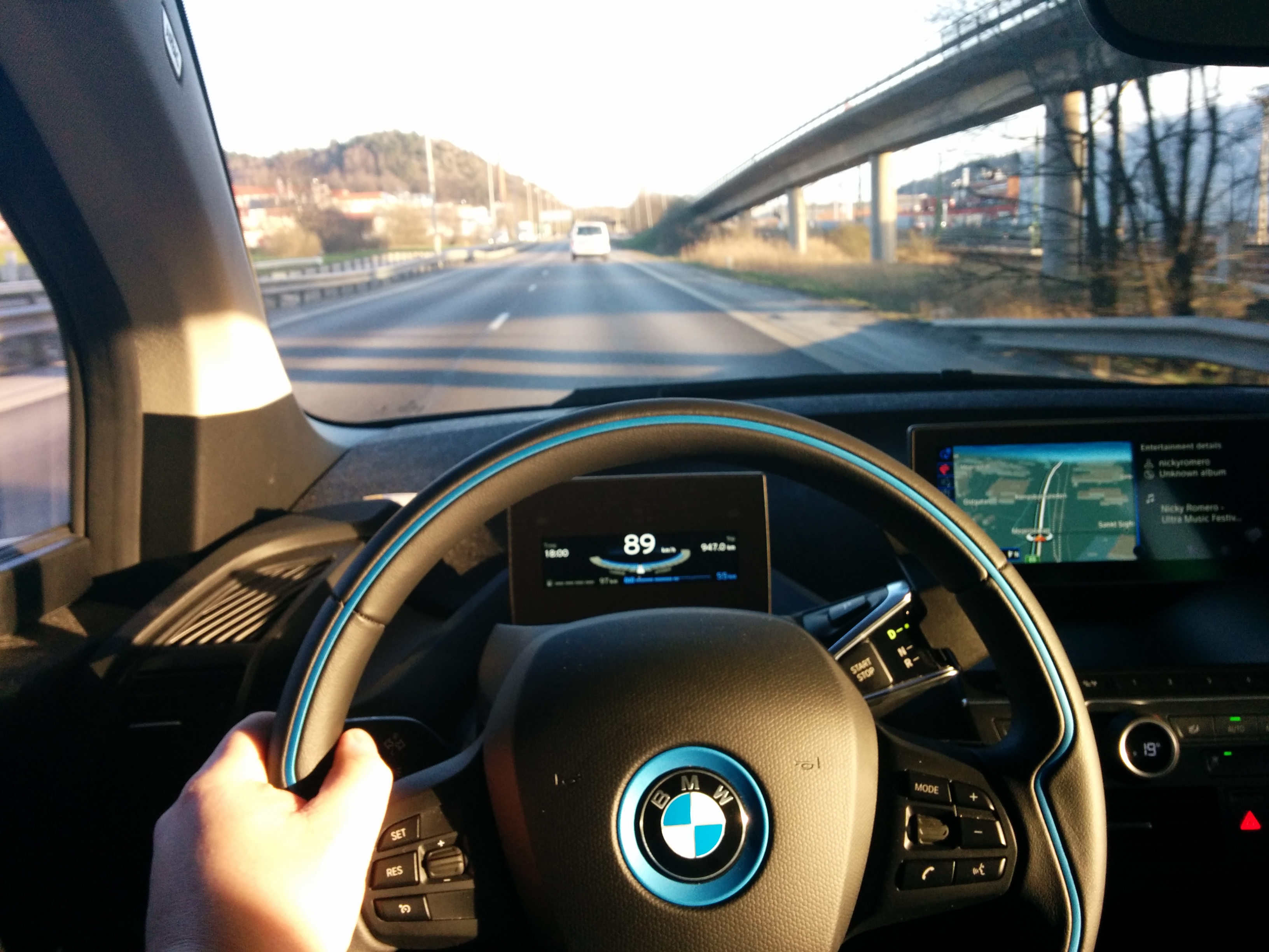 Main control panel and screens of the BMW i3 electric car